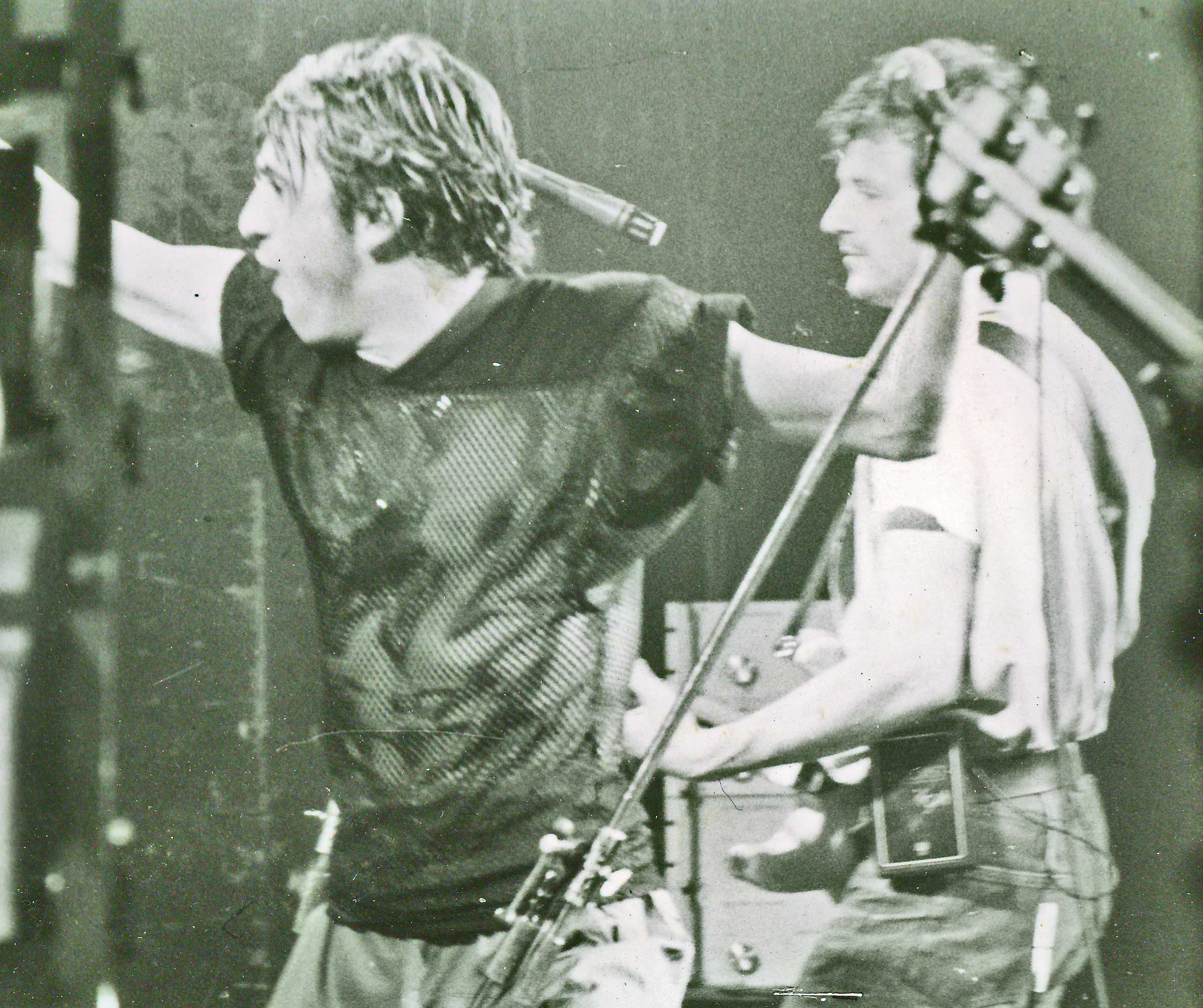 Mladen Vojičić - Tifa and Goran Bregović performing in Niš (Serbia) in the mid 80's